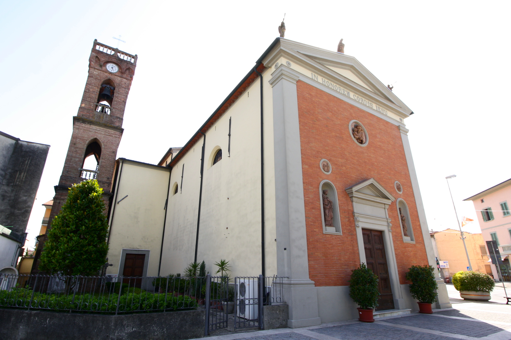 Church Sacro Cuore, Ponte a Egola, hamlet of San Miniato, Province of Pisa, Tuscany, Italy